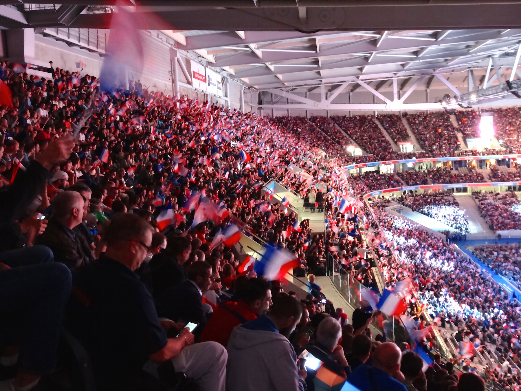 Eurobasket ambience in Lille